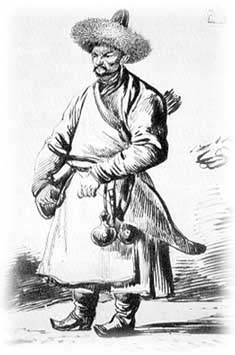 Aleksander Orłowski (1777-1832) "Bashkir" 1814